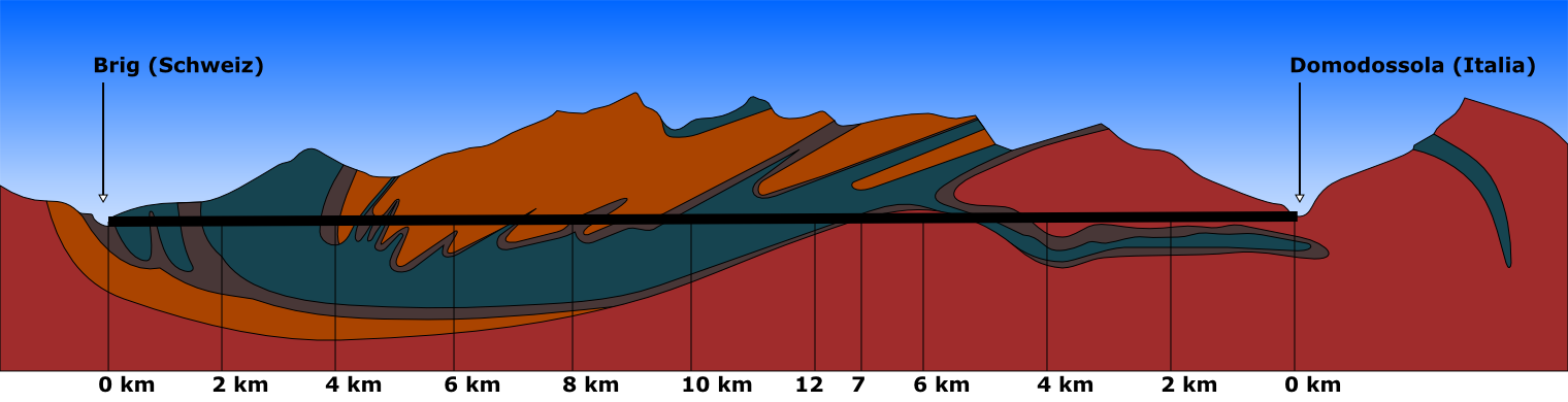 Simplon tunnel - geology